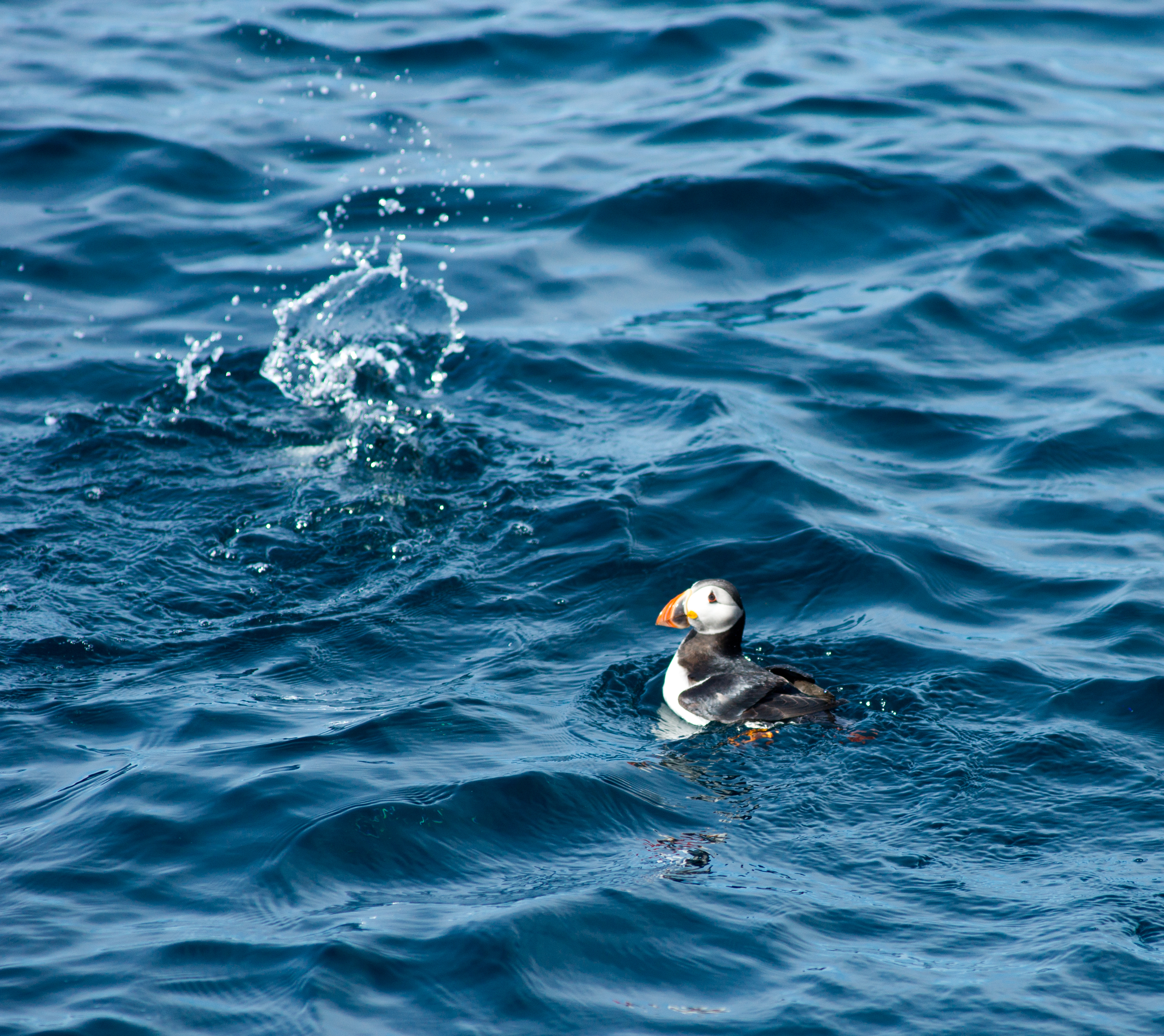 Atlantic Puffin fishing.